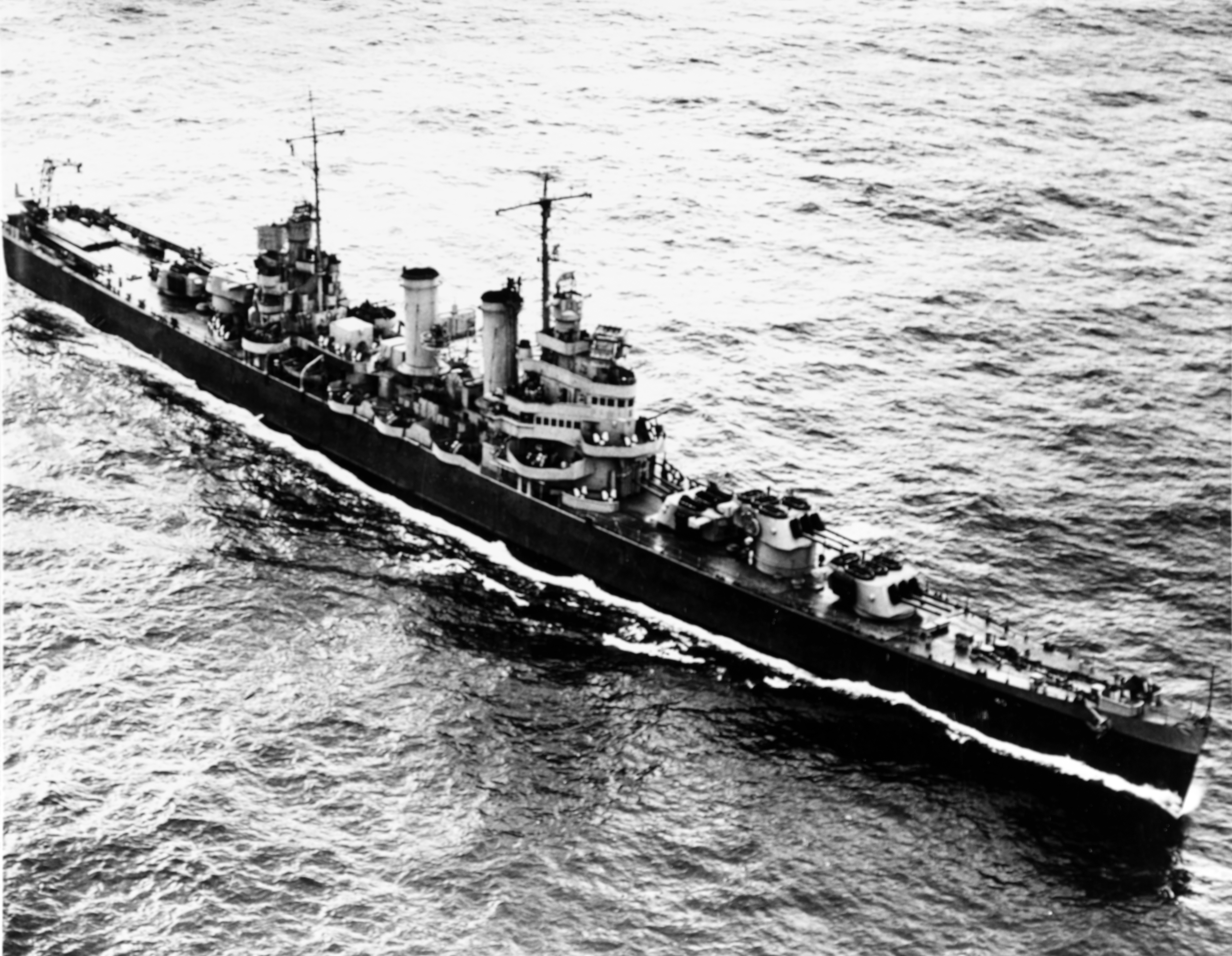 The U.S. Navy light cruiser USS Brooklyn (CL-40) underway on 11 June 1943.